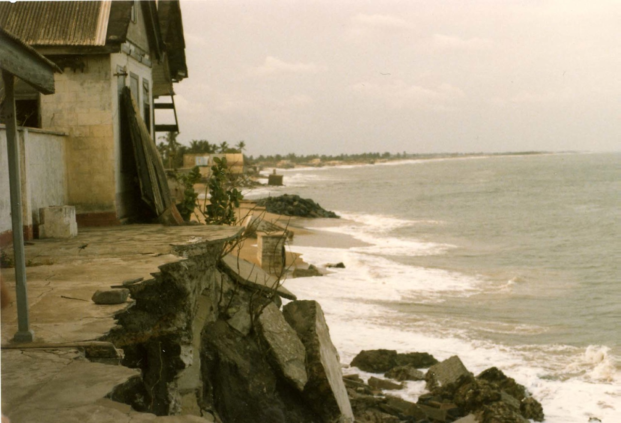 Fort Prinsensten, Keta built in 1784. In 1985 it was washing into the sea. I wonder if any thing is left over 20 years later.